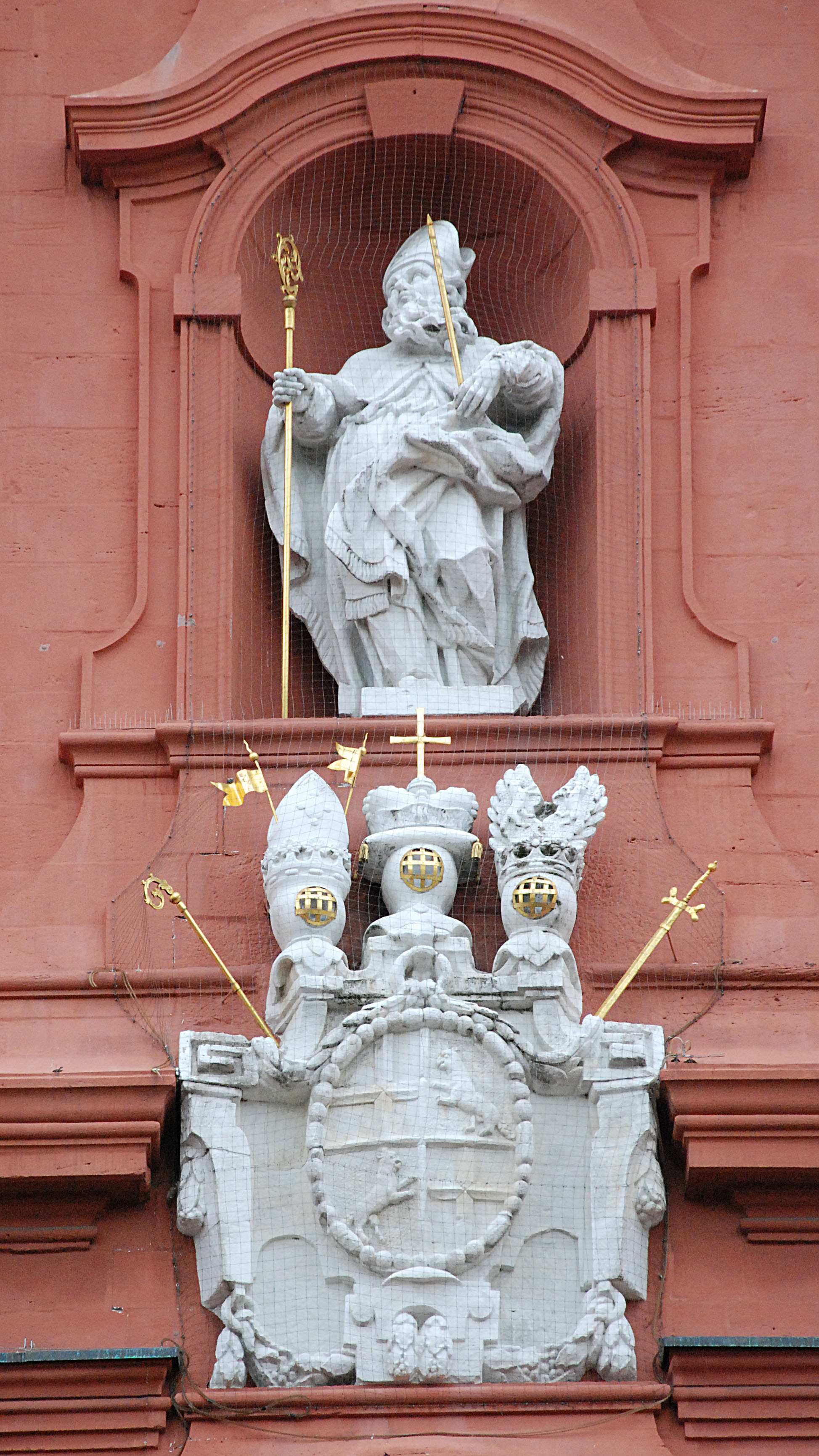 St. Blasius, Fulda, Germany